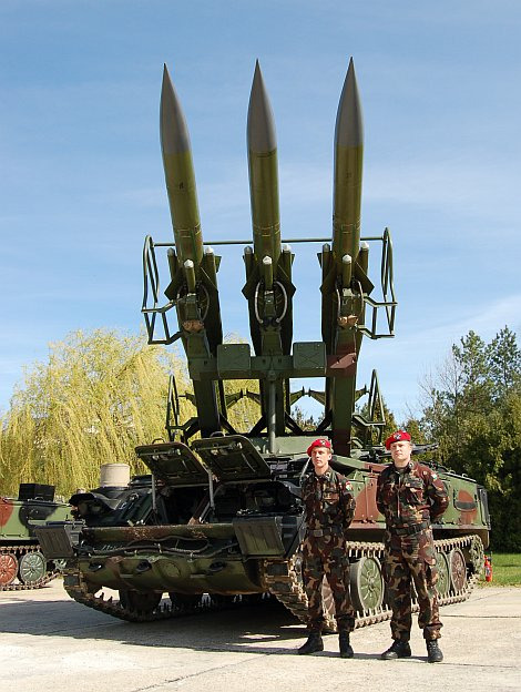 Hungarian SA-6 'KUB' fireing exercise!